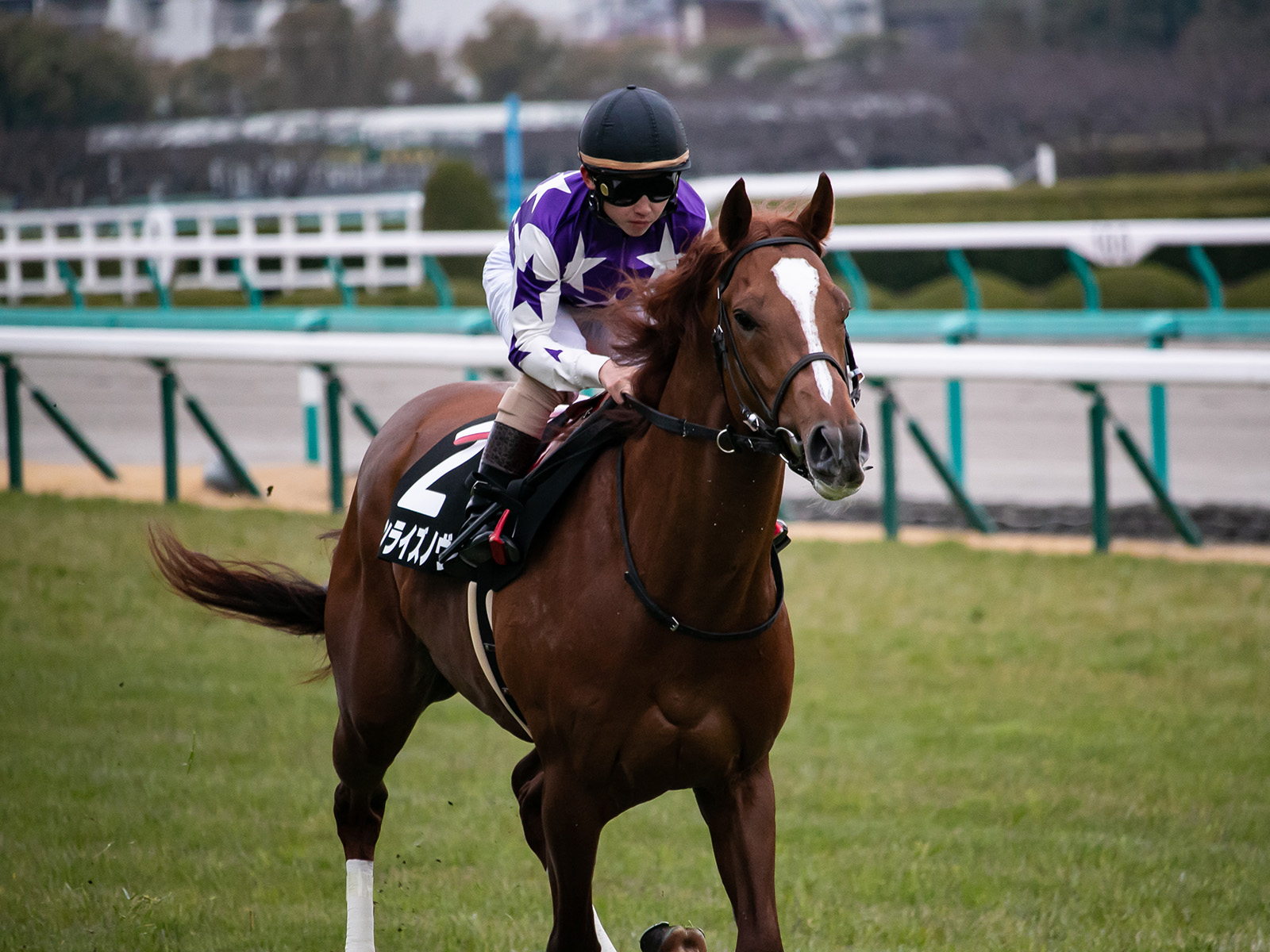 Sunrise Nova(JPN), Racehorse of Japan.